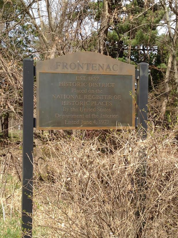 Sign denoting Frontenac, Minnesota's historic district